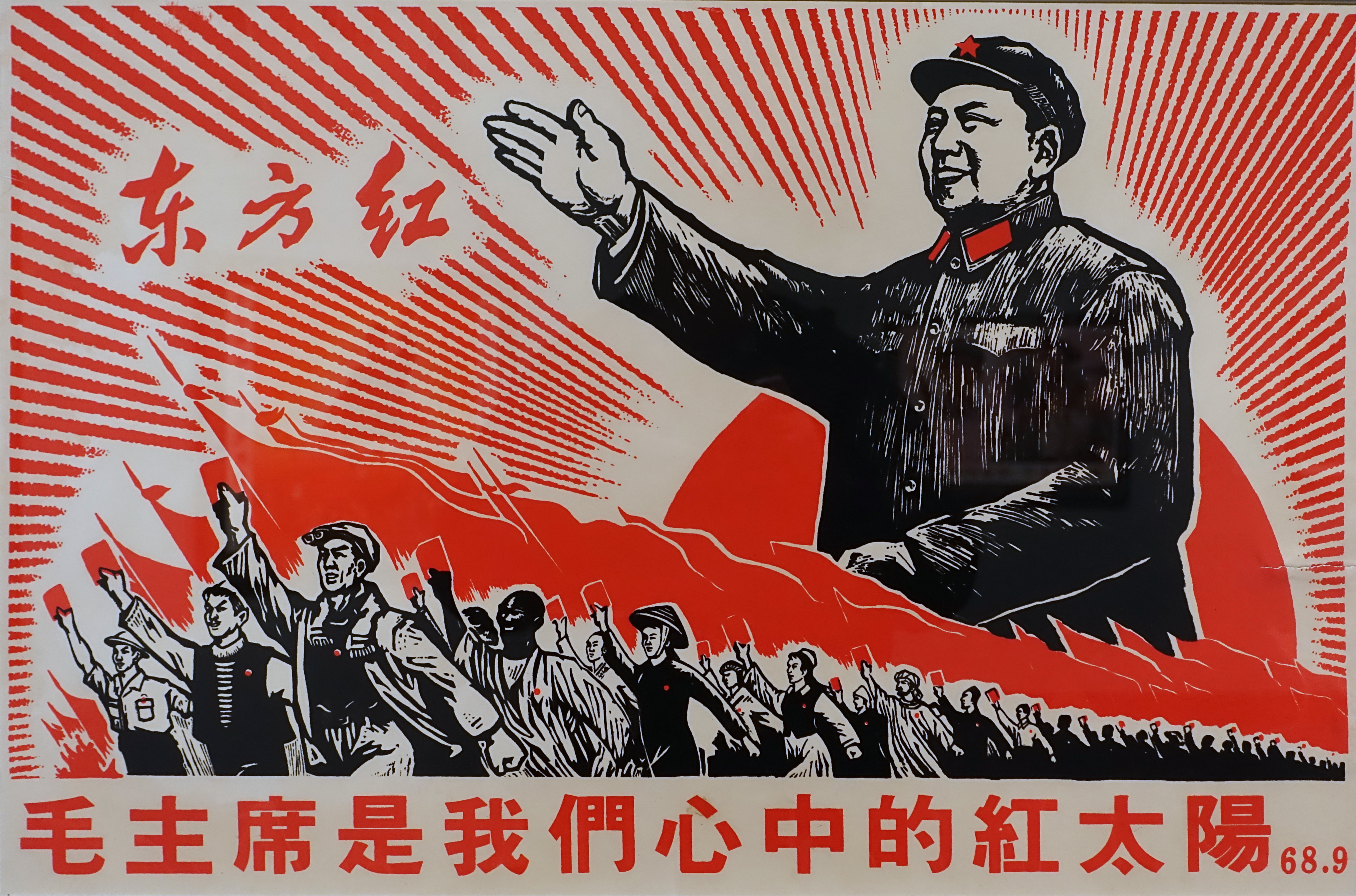 Exhibit in the Jordan Schnitzer Museum of Art, University of Oregon - Eugene, Oregon, USA.